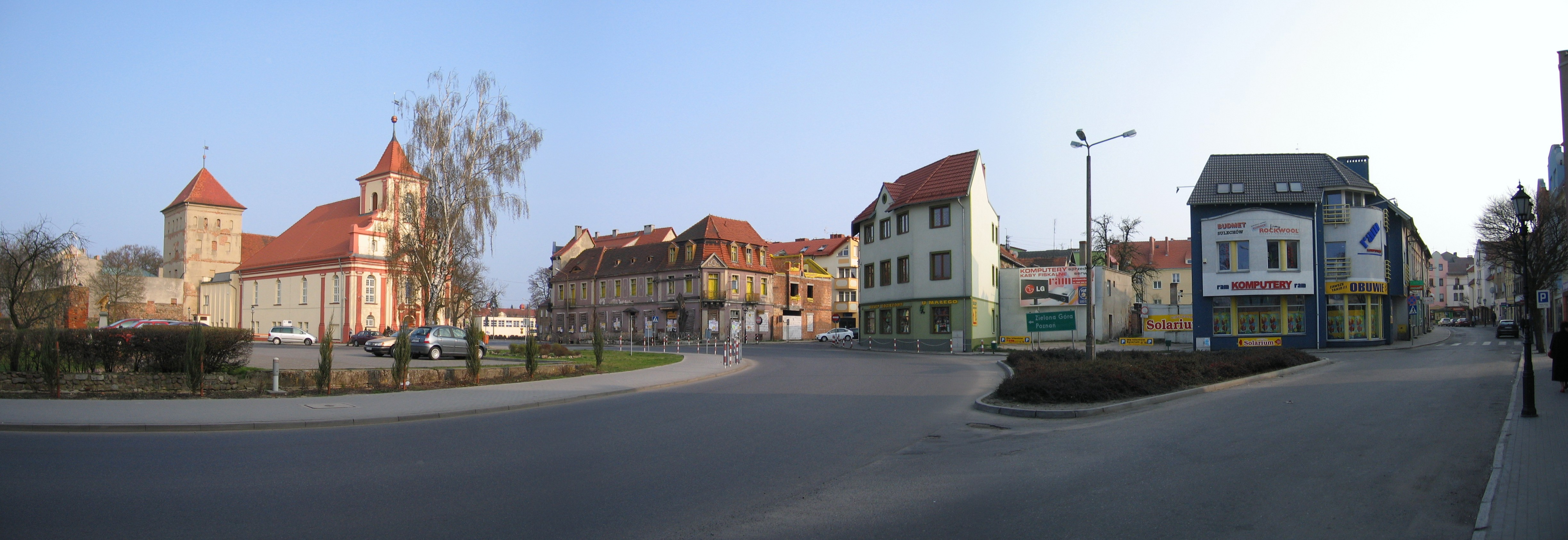 a panorama of Sulechów